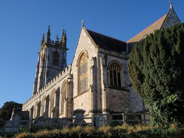 St Michael & All Angels church, Heavitree (4) The curse of the converging verticals. This view of 1065081 is from Church Street, down below the churchyard.